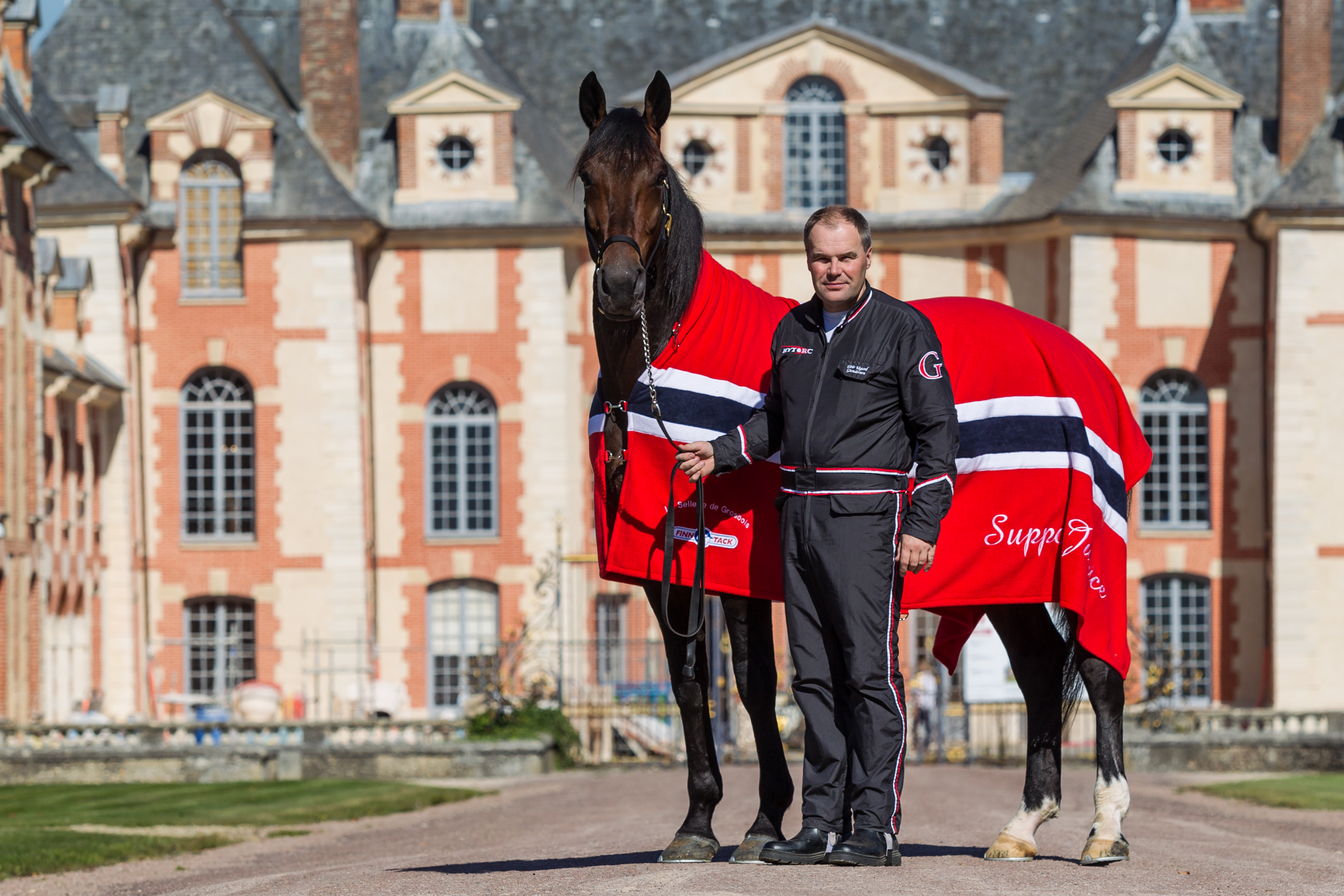 Support Justice and Geir Vegard Gundersen at Grosbois in Paris 2014-09-26.